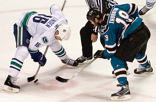 Vancouver Canucks forward Trevor Linden and San Jose Sharks forward Joe Thornton face off during a game in 2007.